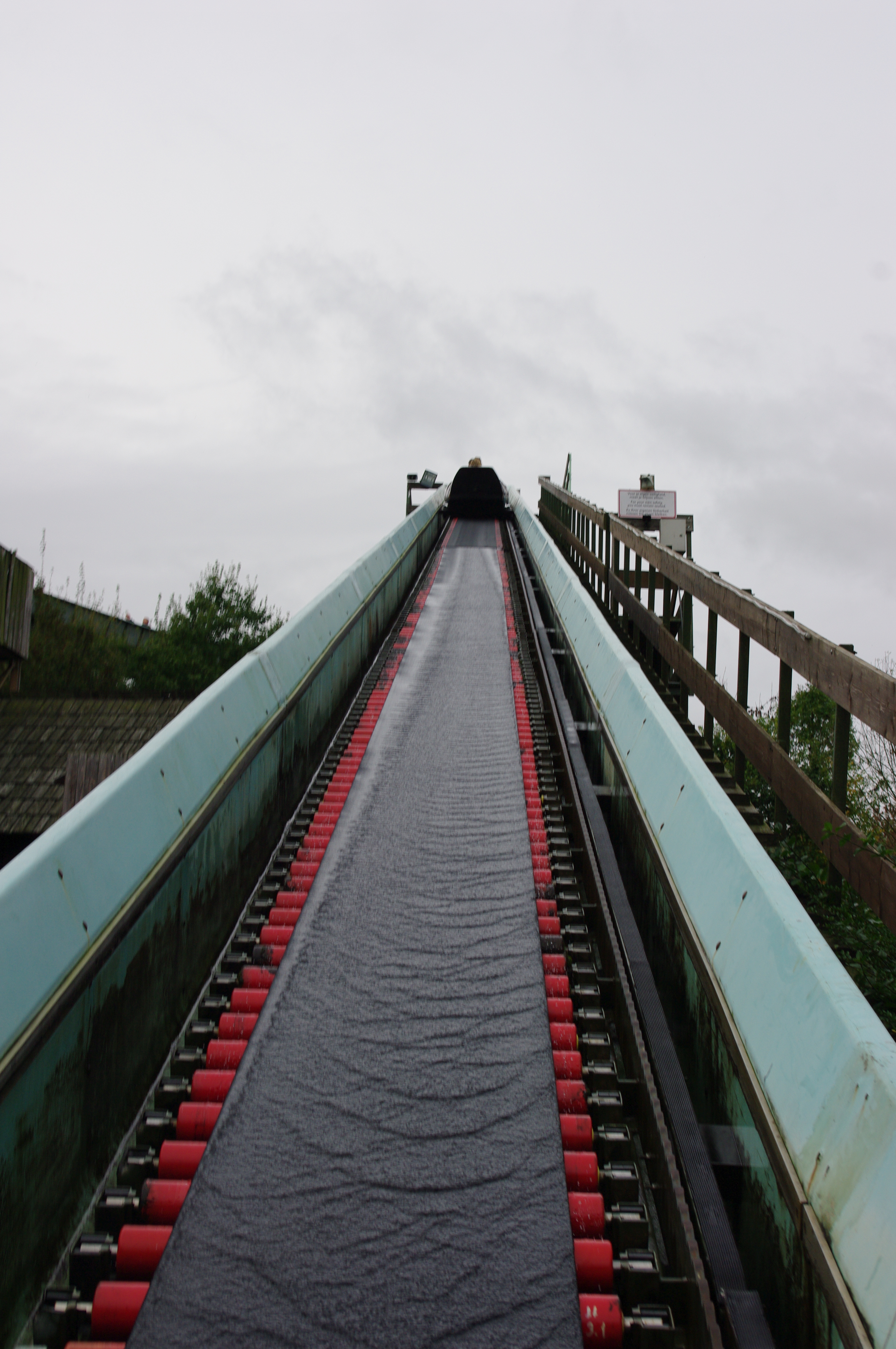 Crazy River in the Dutch themepark Walibi World.